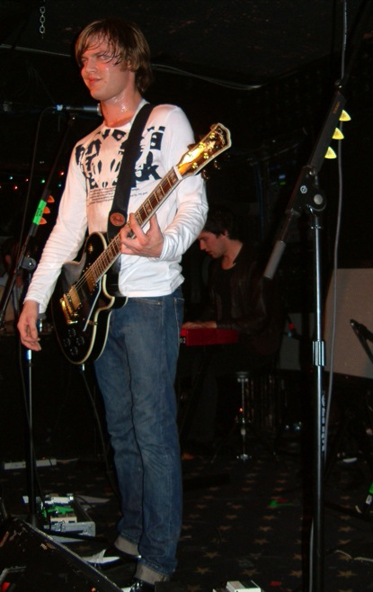 Is it just me or does he look like Drew Barrymore in this shot?